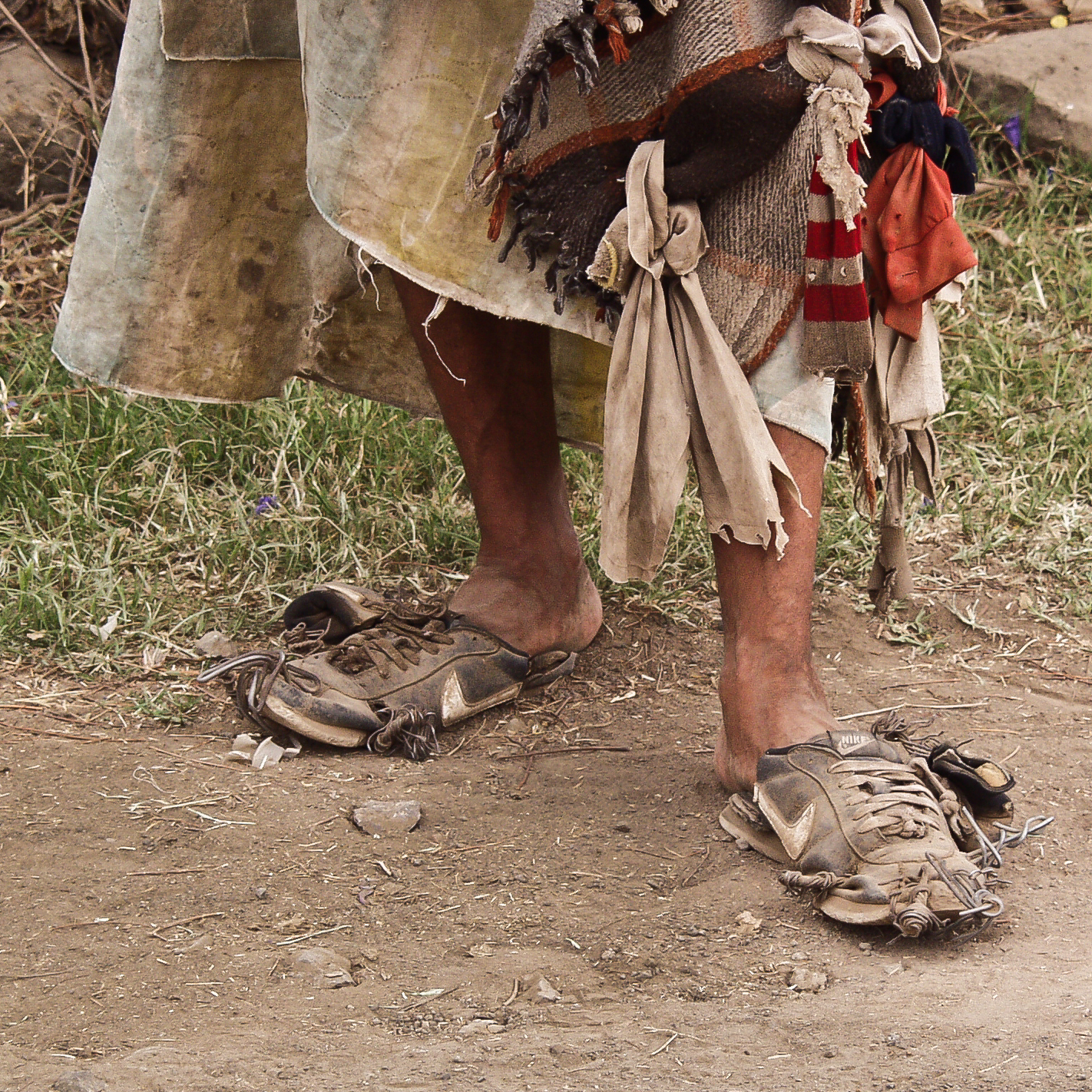 Homeless with nikes.